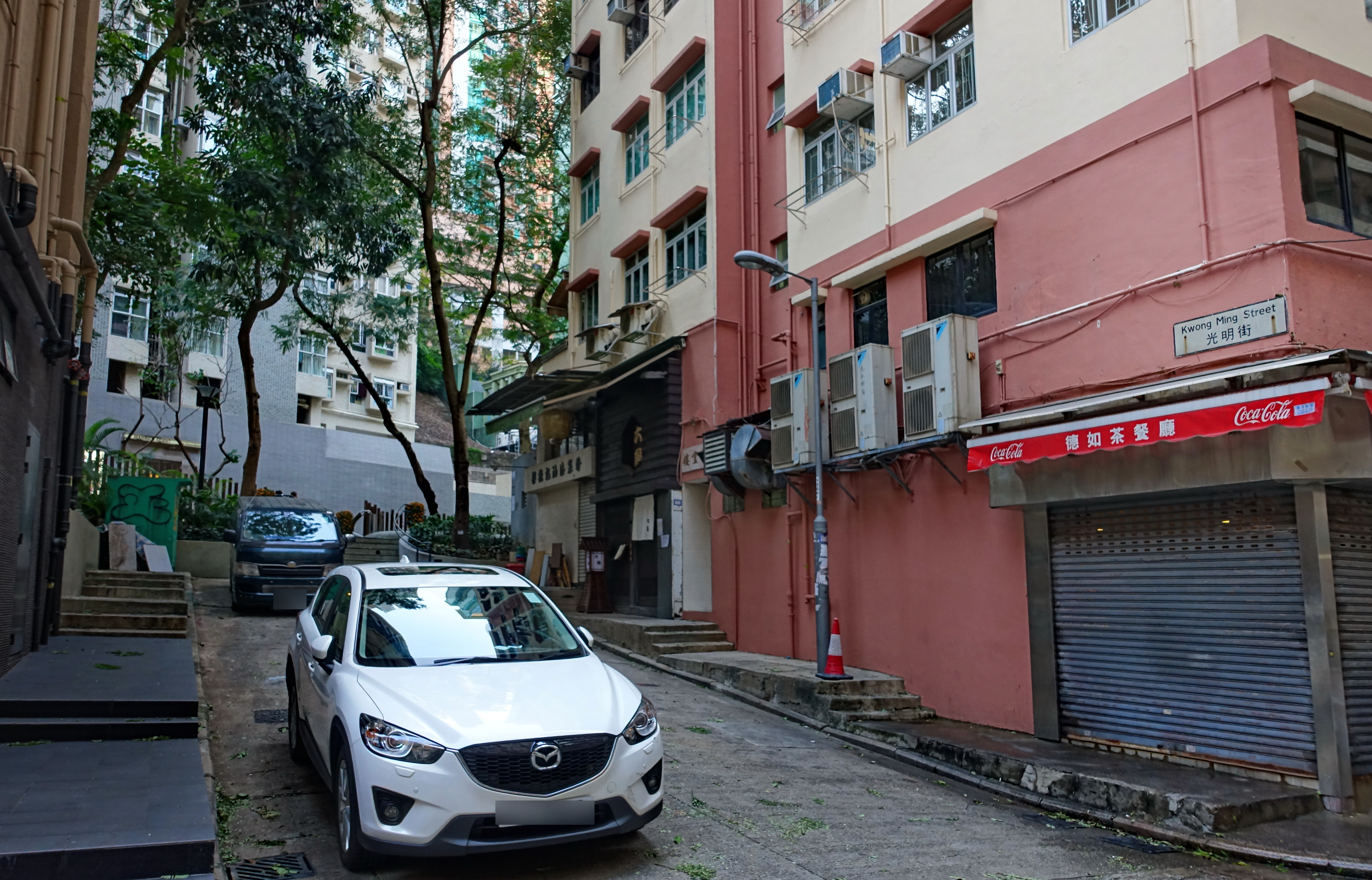 Kwong Ming Street, Wan Chai, Hong Kong.